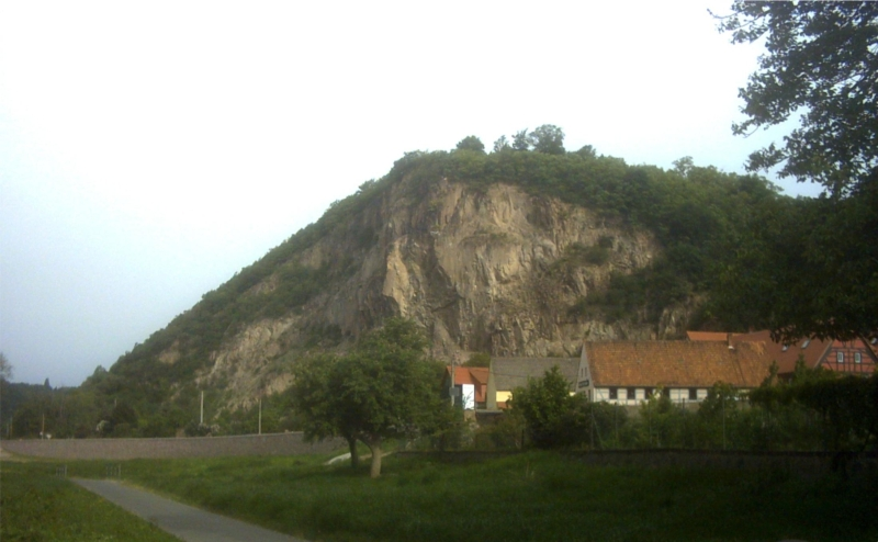 Spaargebirge near Meissen in Germany. creator:Thomas Richter/user:THOMAS date:2006-05-25